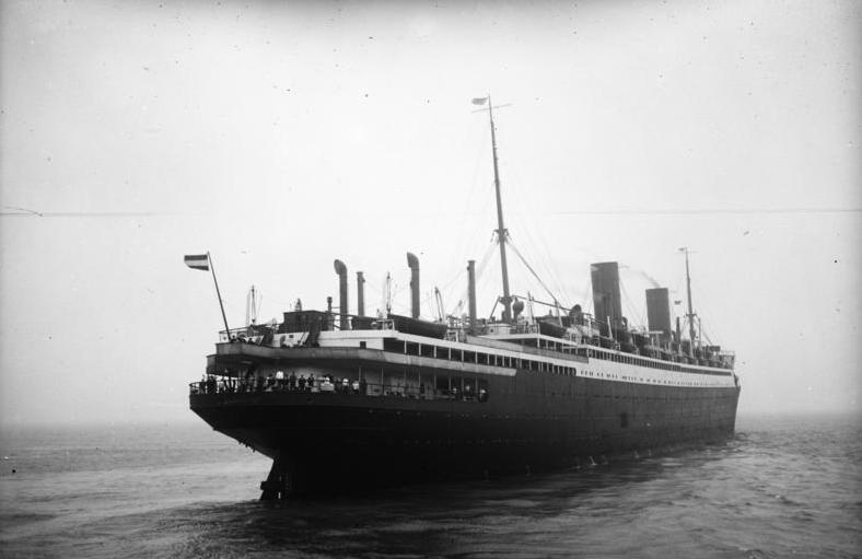 Dampfer Columbus